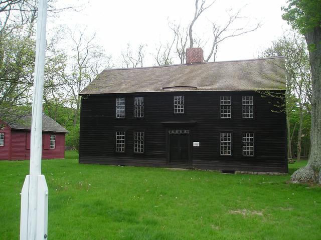 Photograph of the Thomas Lee House, a home built in 1660 by Thomas Lee one of the original settlers of the New England region that is now East Lyme, CT.